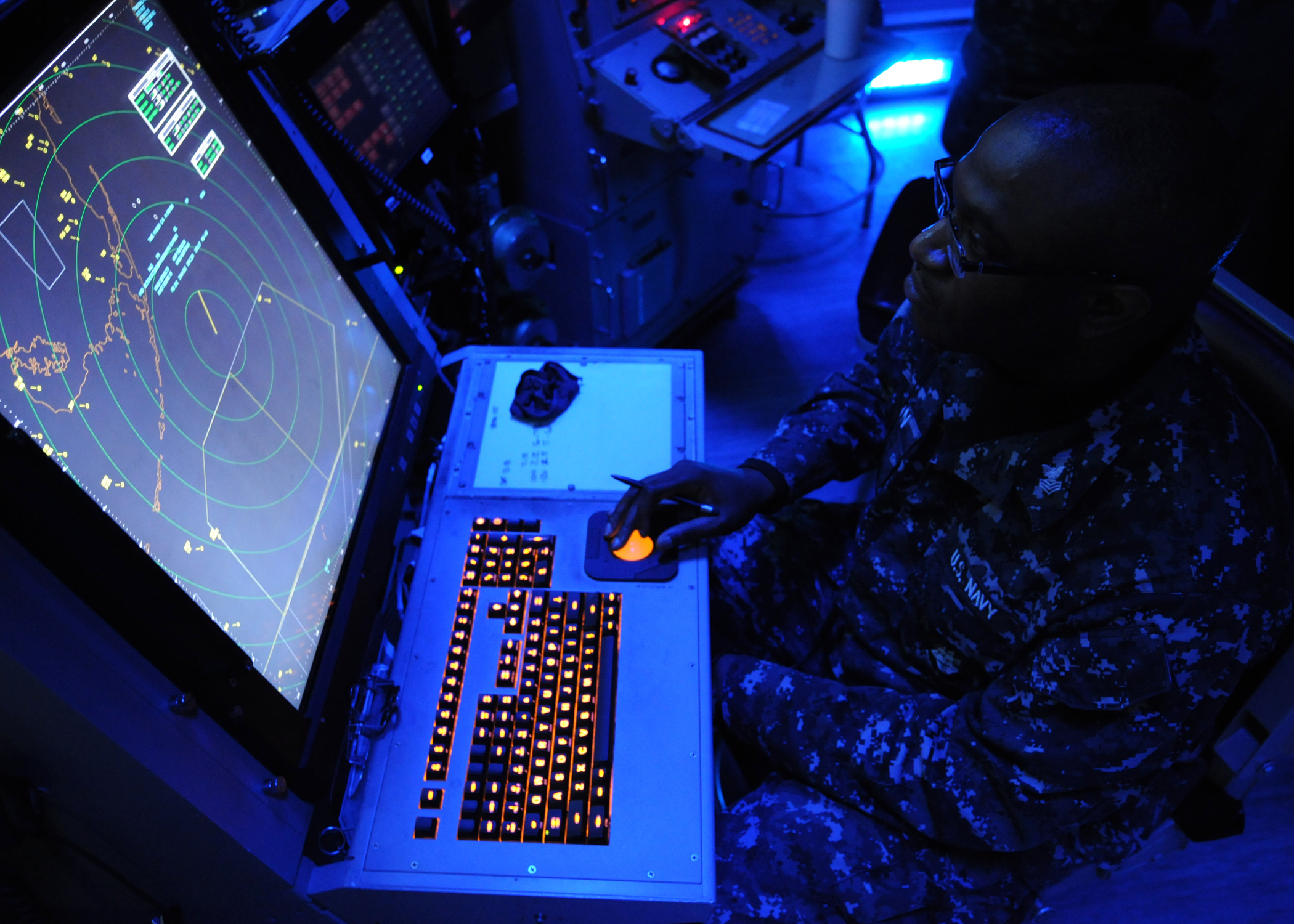 ATLANTIC OCEAN (Feb. 8, 2012) Air-Traffic Controller 1st Class Justin S. Brown tracks incoming aircraft from the carrier air traffic control center aboard the aircraft carrier USS George H.W. Bush (CVN 77). George H.W. Bush is in the Atlantic Ocean conducting carrier qualifications. (U.S. Navy photo by Mass Communication Specialist 3rd Class Kasey Krall/Released)